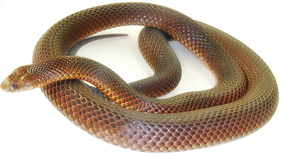 King Brown aka Mulga Snake (Pseudechis australis)